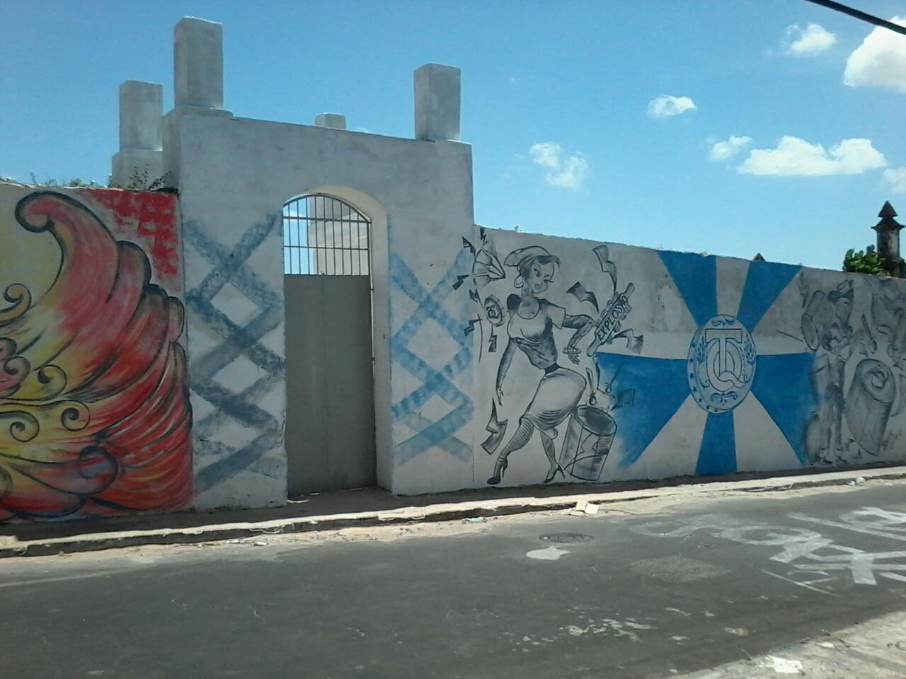 Turma do Quinto